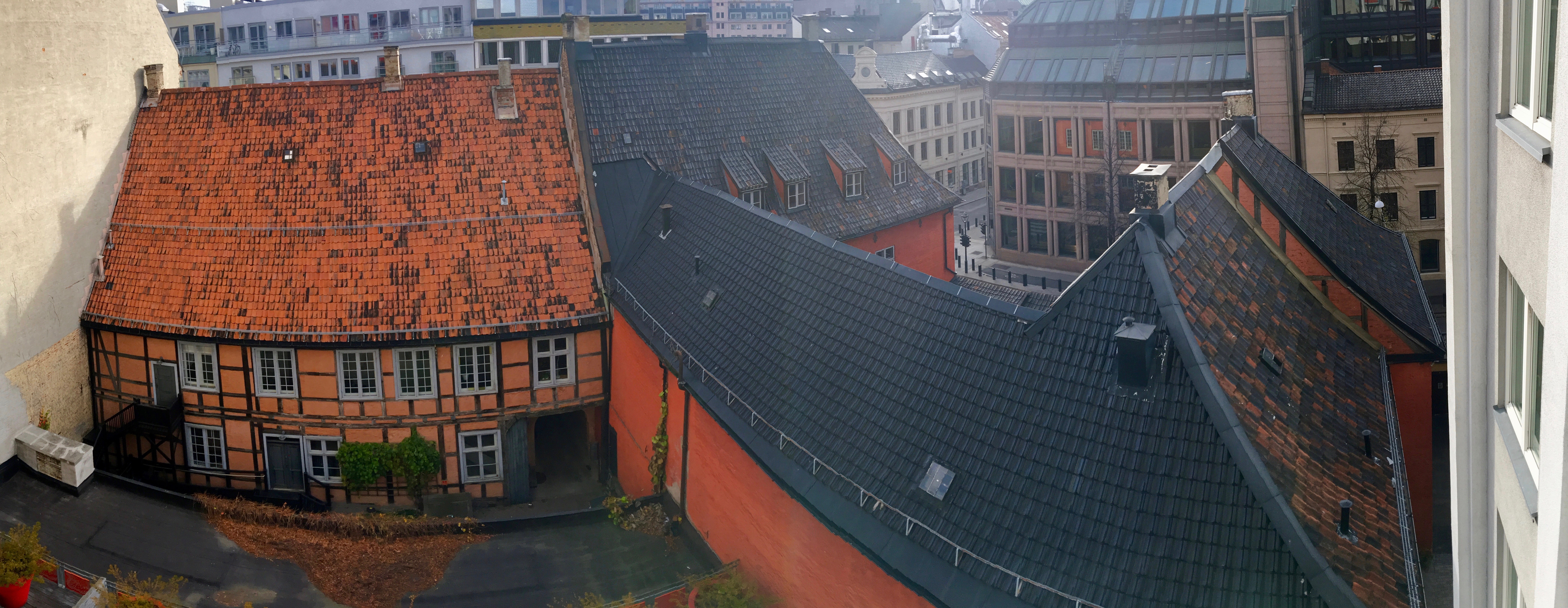 Roof of Magistratgården (Dronningens gate 11) and Garmanngården (Rådhusgata 7) in Oslo, Norway seen from Thon Hotel Panorama. Cropped distorted panorama photo 2018-10-26